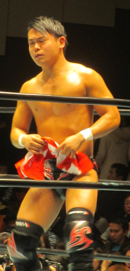 Japanese professional wrestler,Tatsuhiko Yoshino. Mar 5 2017, BJW Korakuen Hall.